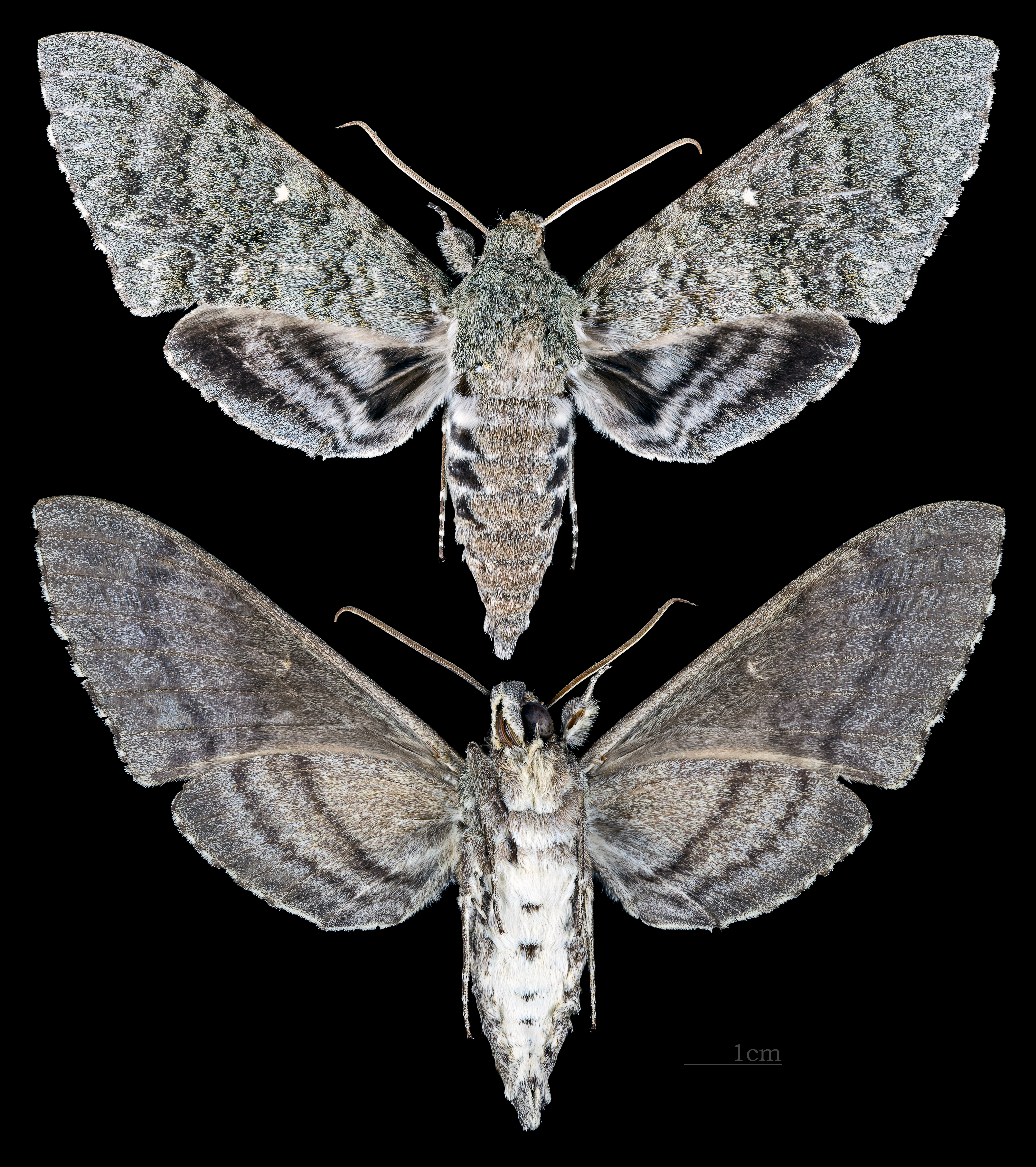 Manduca muscosa - Two views of same specimen Collection of the Mathematician Laurent Schwartz